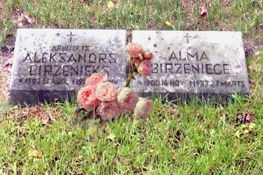 Tombstones. A. Birzenieks and A. Birzeniece.